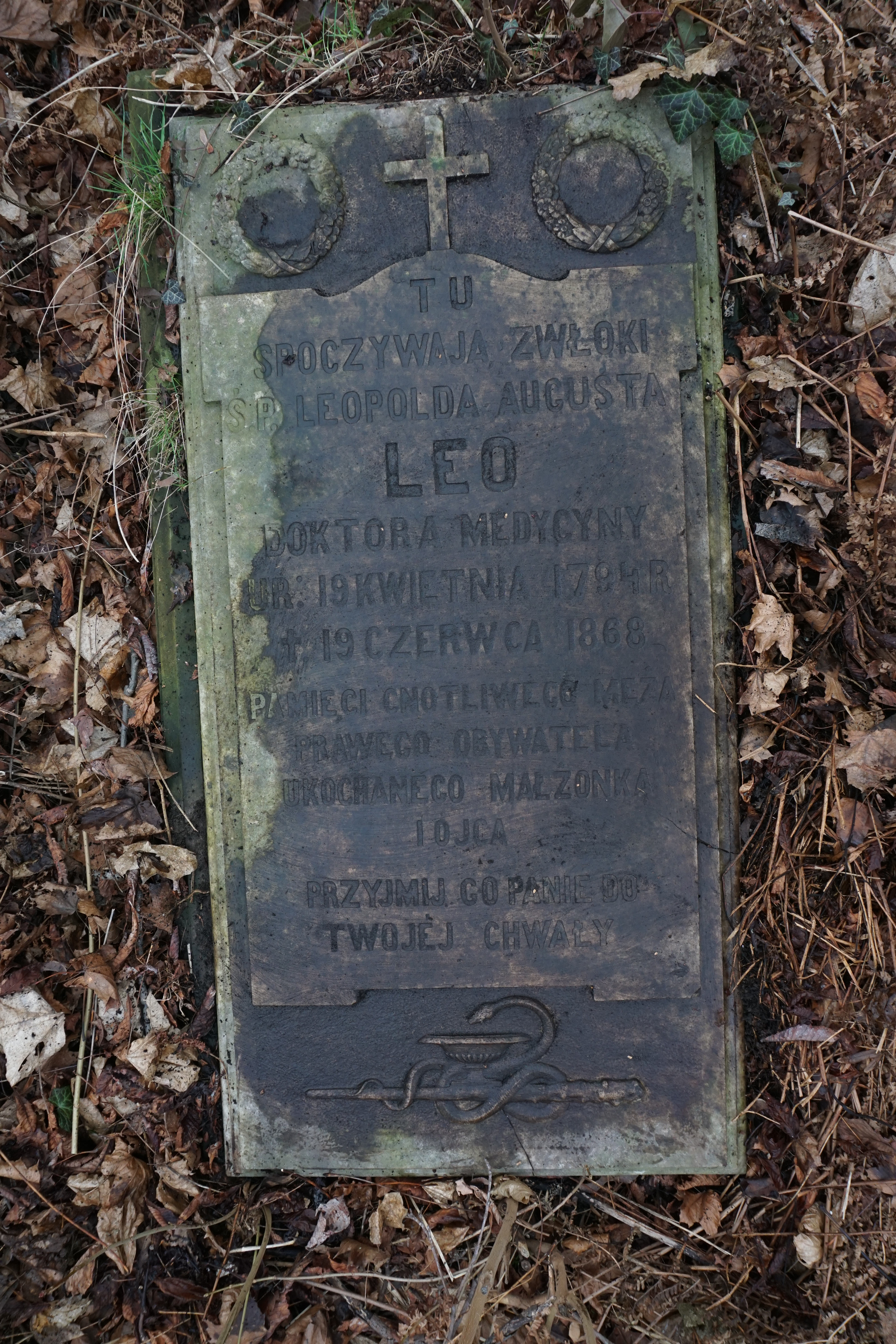 The grave of Leopold Leo at the Evangelical-Augsburg Cemetery in Warsaw (avenue 18, grave 6)